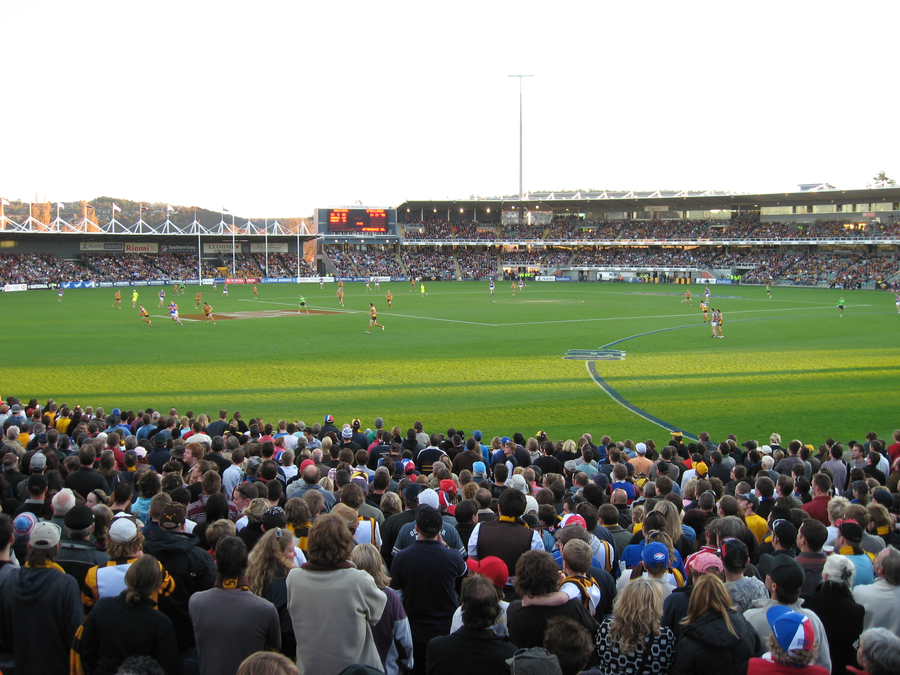 Hawthorn v Western Bulldogs at Aurora Stadium